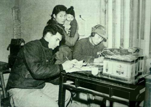 美方特工正教授中方人员学习无线电信号窃听 US intelligence officer teaching Chinese how to use radio.